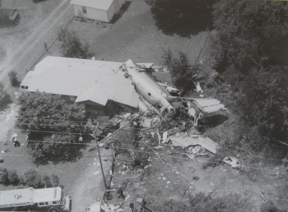 USAir Flight 1016. Charlotte, North Carolina.